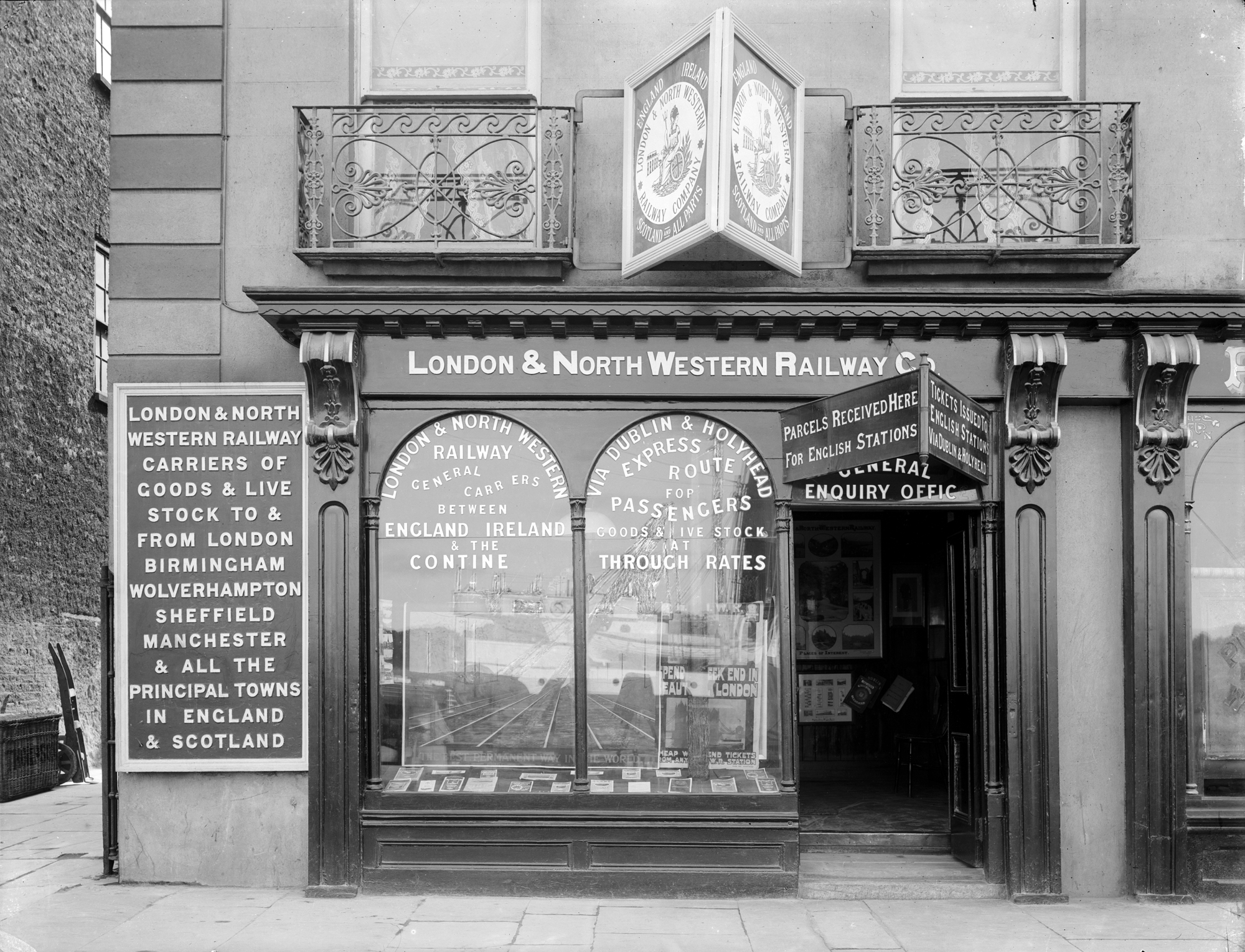 Offices of the London & North Western Railway Co. on The Quay, Waterford. Date: 3 September 1910 NLI Ref.: P_WP_2099